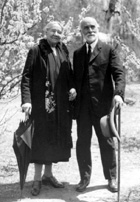 They pioneered the North Honan (Henan) mission in 1888.